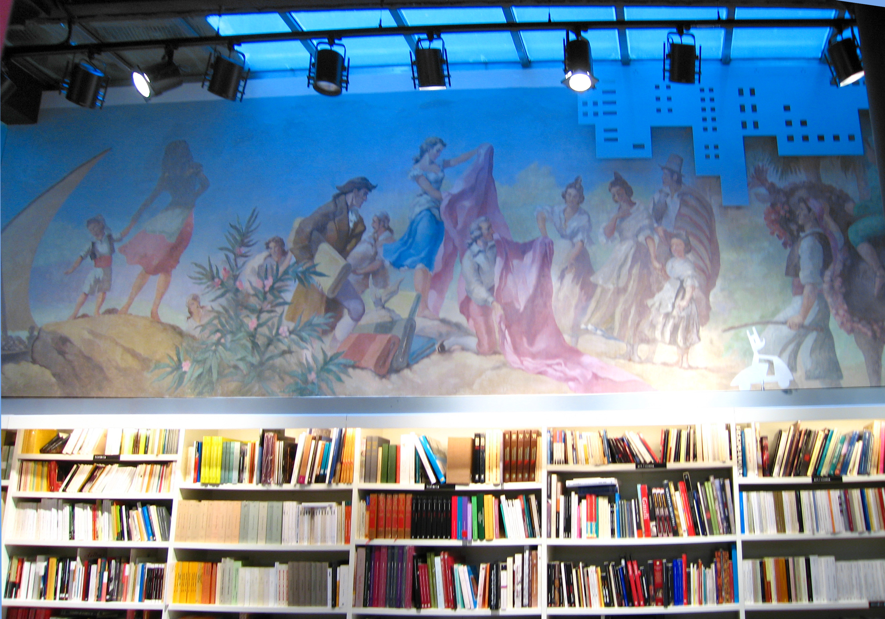 Lliberia 3 i 4 (València)